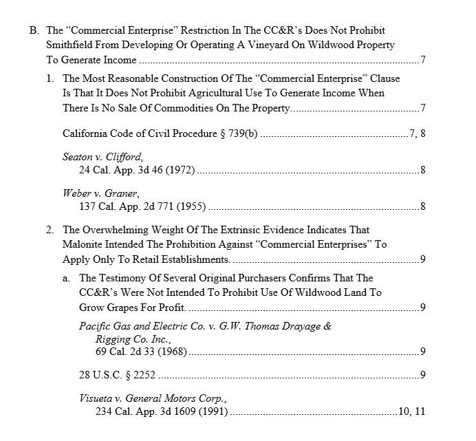 Four states require a different formatting of the Table of Authorities: IL, OK, KY, and KS. The citations are listed under each section of the Table of Contents in which they appear.